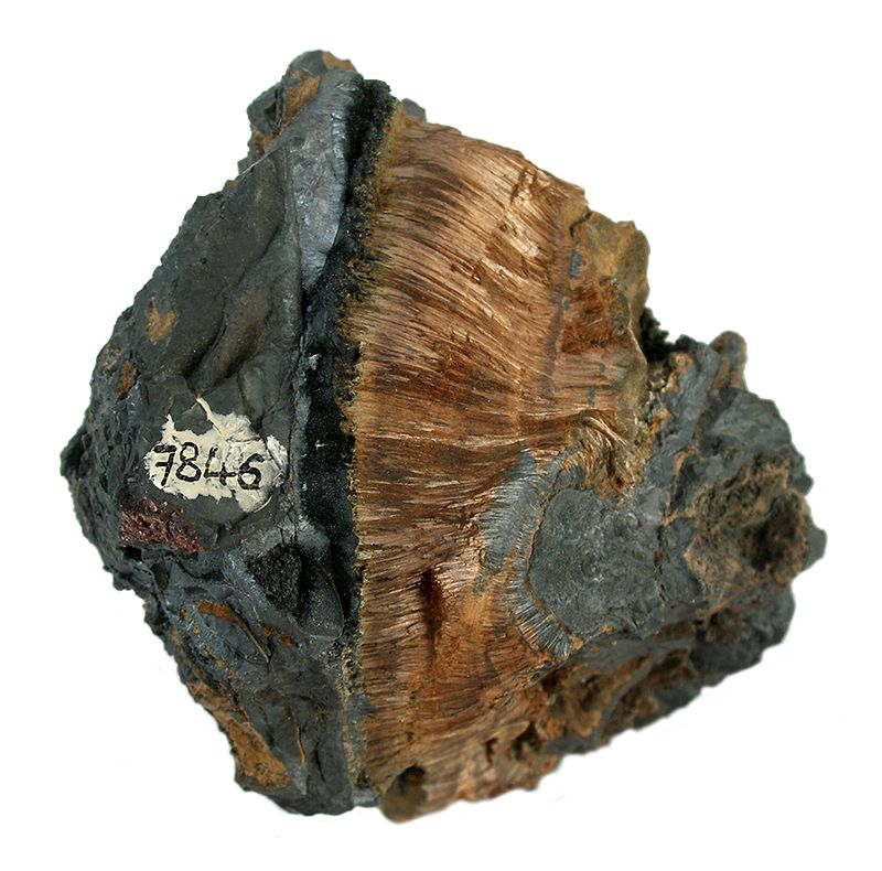 Arseniosiderite Locality: Roman?che-Thorens, Sa?ne-et-Loire, Rh?ne-Alpes, France (TYPE LOCALITY for BOTH SPECIES) Size: small cabinet, 6.4 x 6.2 x 5.6 cm Arseniosiderite in Romancheite A very rich specimen with shiny tigers-eye-like veins of arseniosiderite running through matrix of rich, massive Romancheite. The arseniosiderite is technically crystallized, forming lamellar crystals completely filling the veins they grew in. Ex. Jean Chervet Collection.